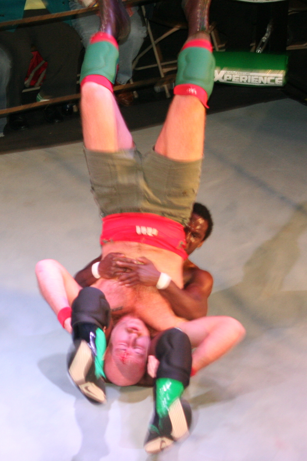 Rich Swann piledriving Jake Manning at a PWX show in February 2014. Cropped from original.